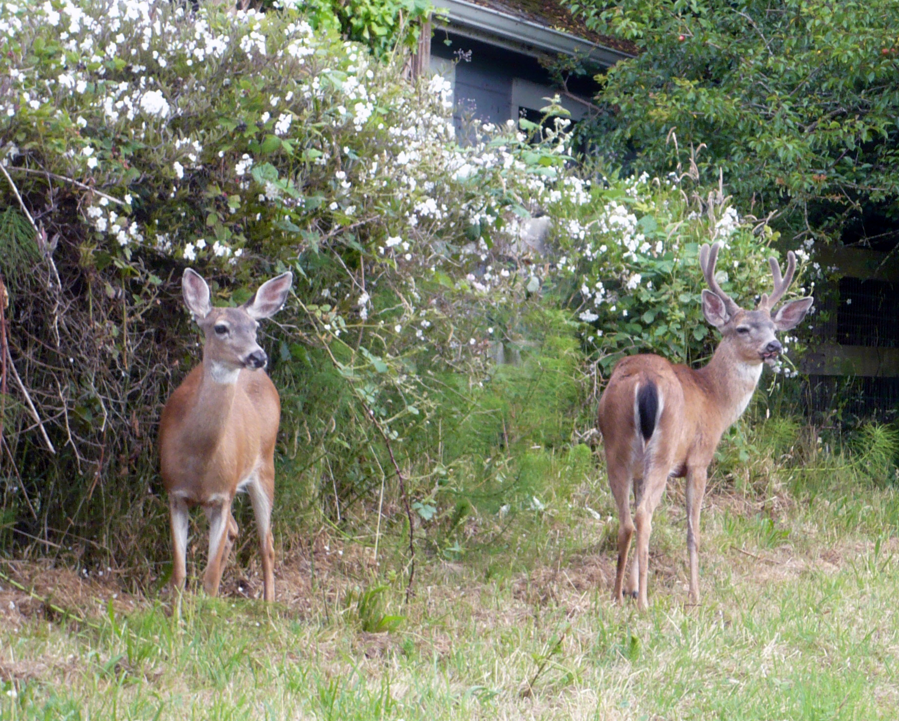 A male and female Columbian black-tailed deer (Odocoileus hemionus columbianus) in a yard in Ferndale, California.